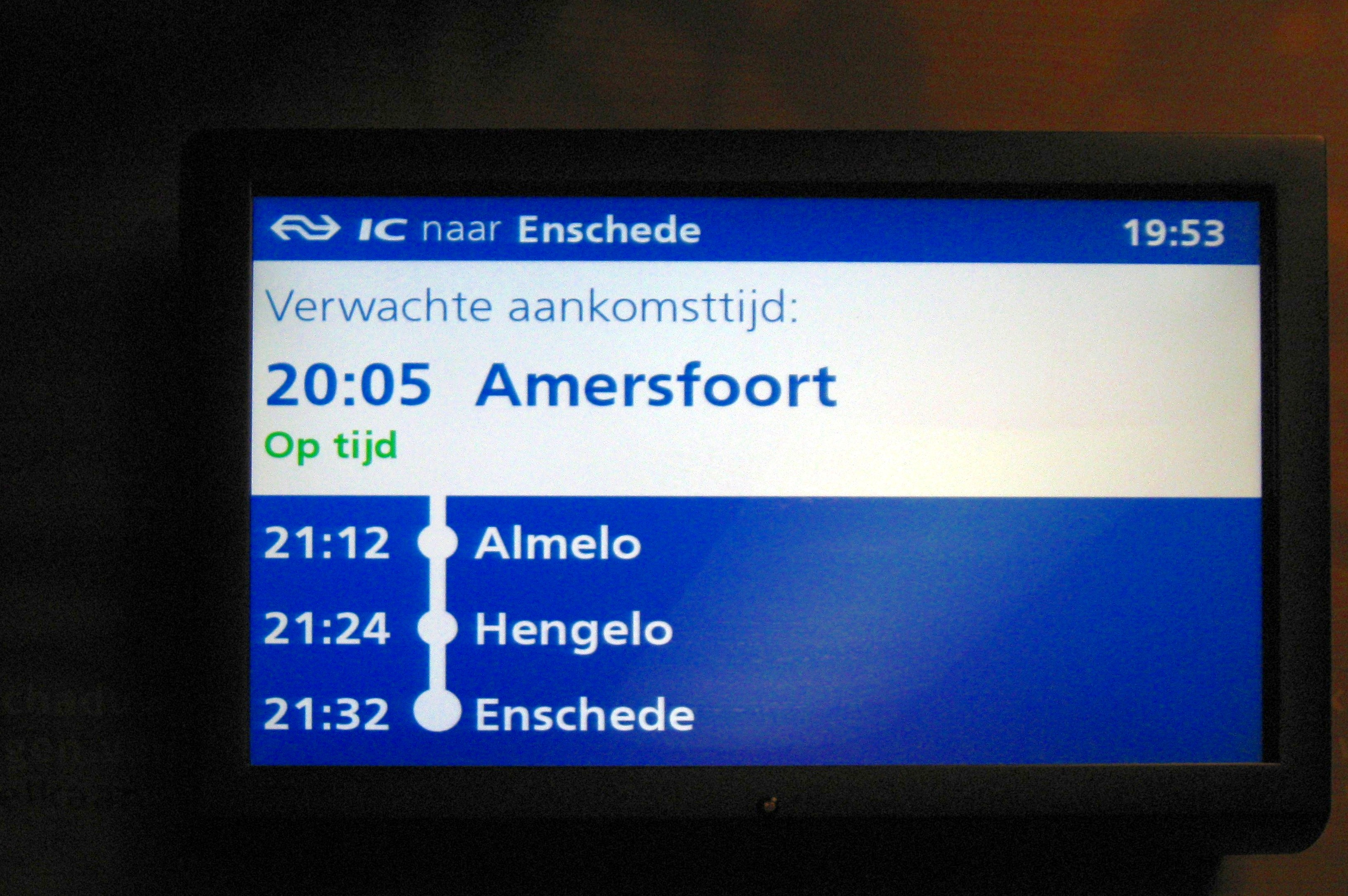 OBIS aboard a Dutch train.